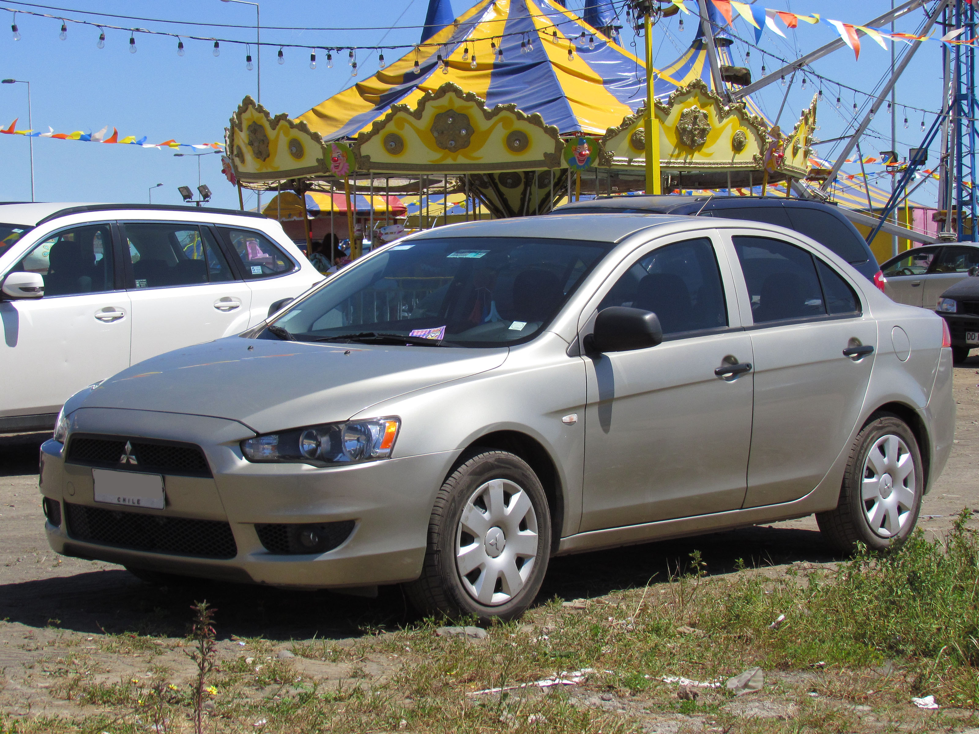 Mitsubishi Lancer 1.5 R-S 2008